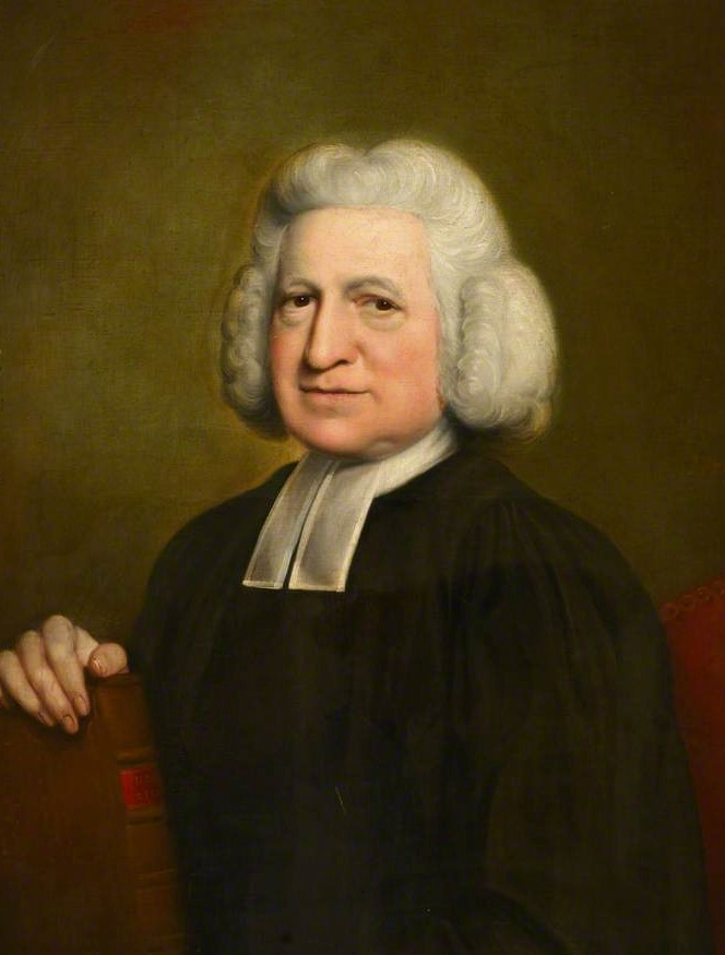 In the public domain by age